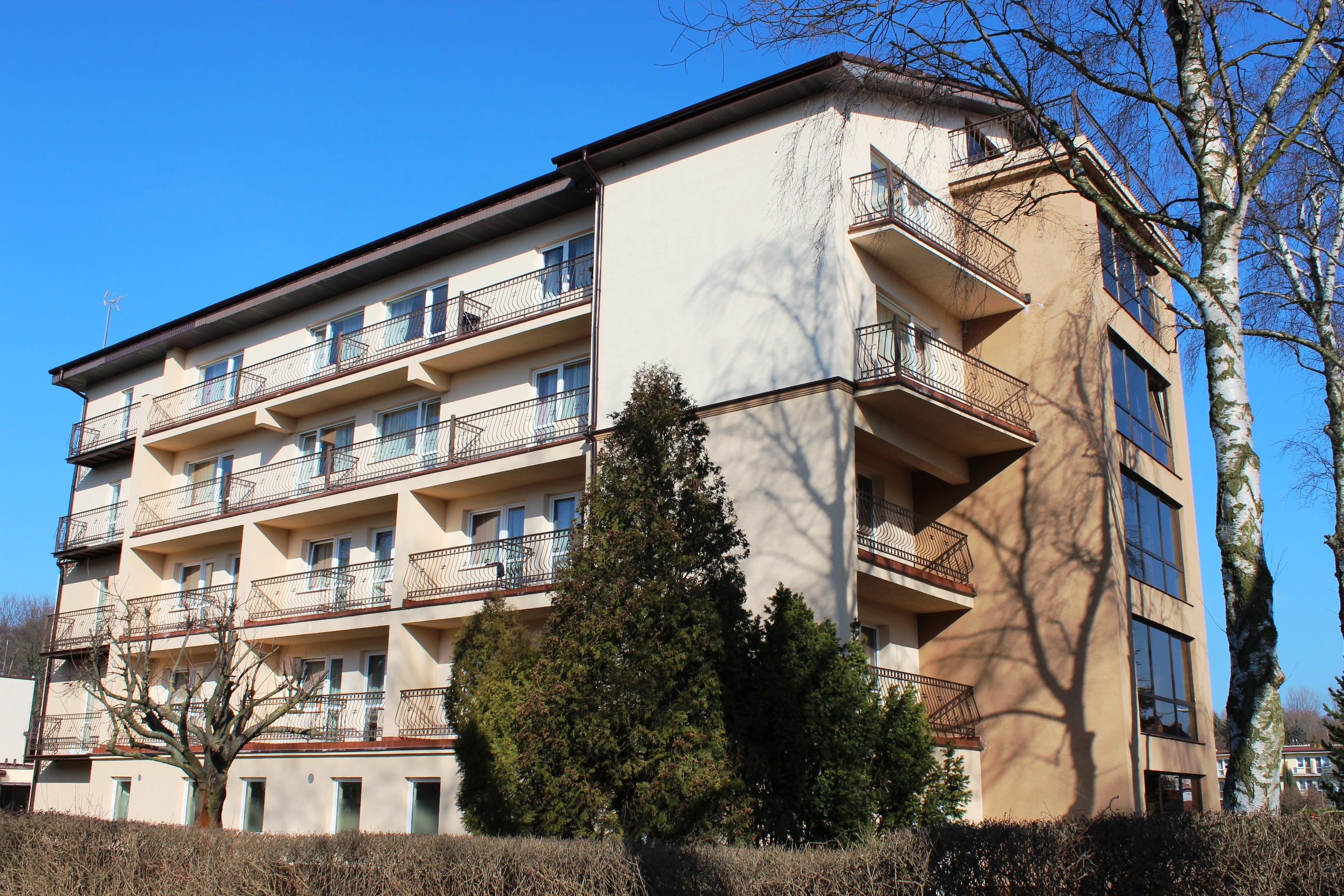 Wistom Sanatorium in Kołobrzeg